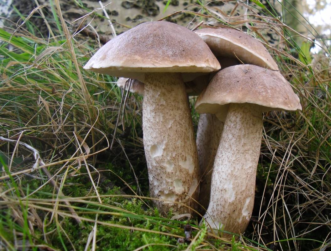 Leccinum duriusculum (Schulzer ex Kalchbr.) Singer Image location: De Uithof, Den Haag, Zuid-Holland, Netherlands For more information about this, see the observation page at Mushroom Observer.